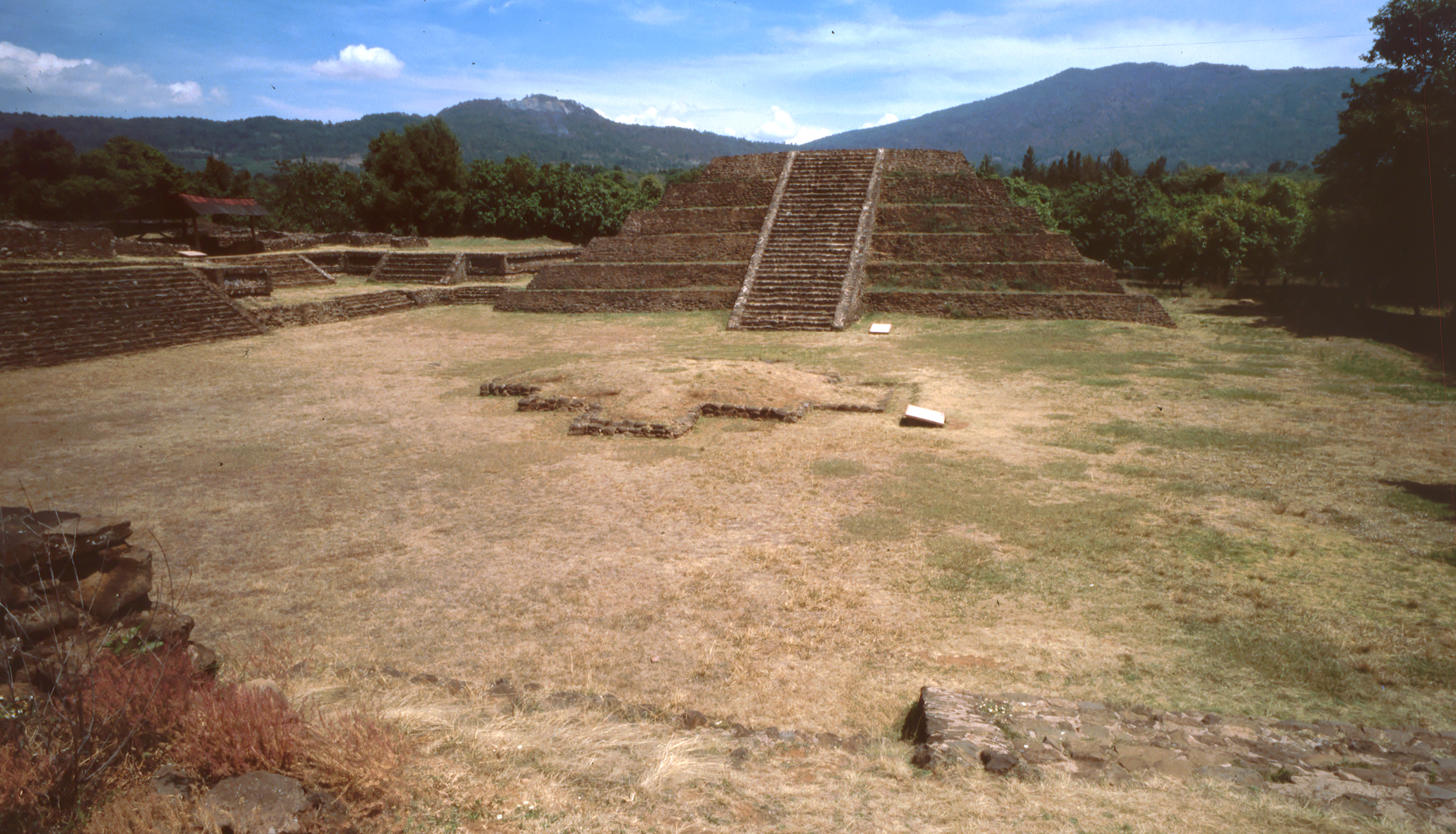 Tingambato, Michoacan, Mexico.